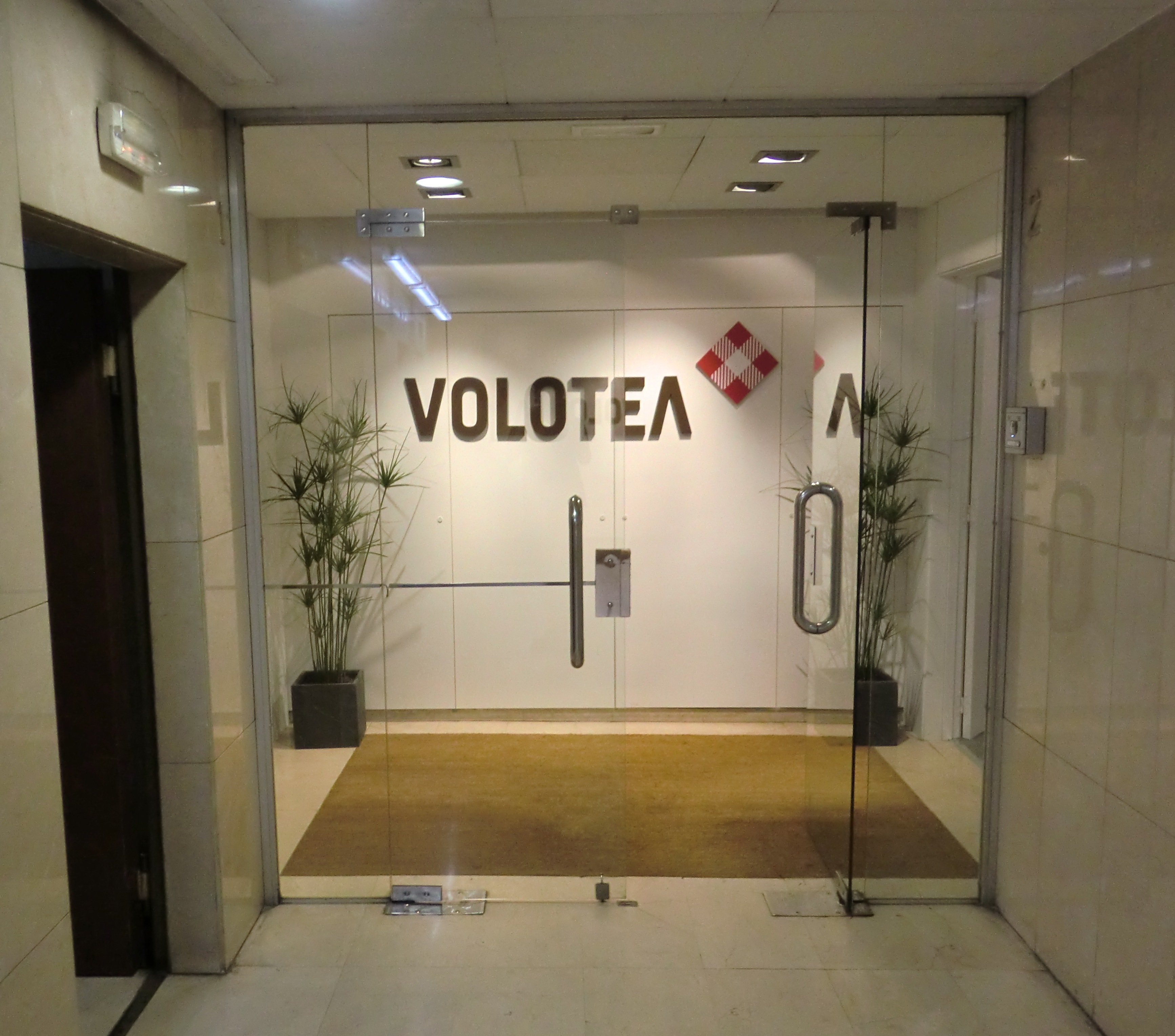 Head office of Volotea, at Travessera de Gràcia, 56, 4ª. 08006, Barcelona, Catalonia.